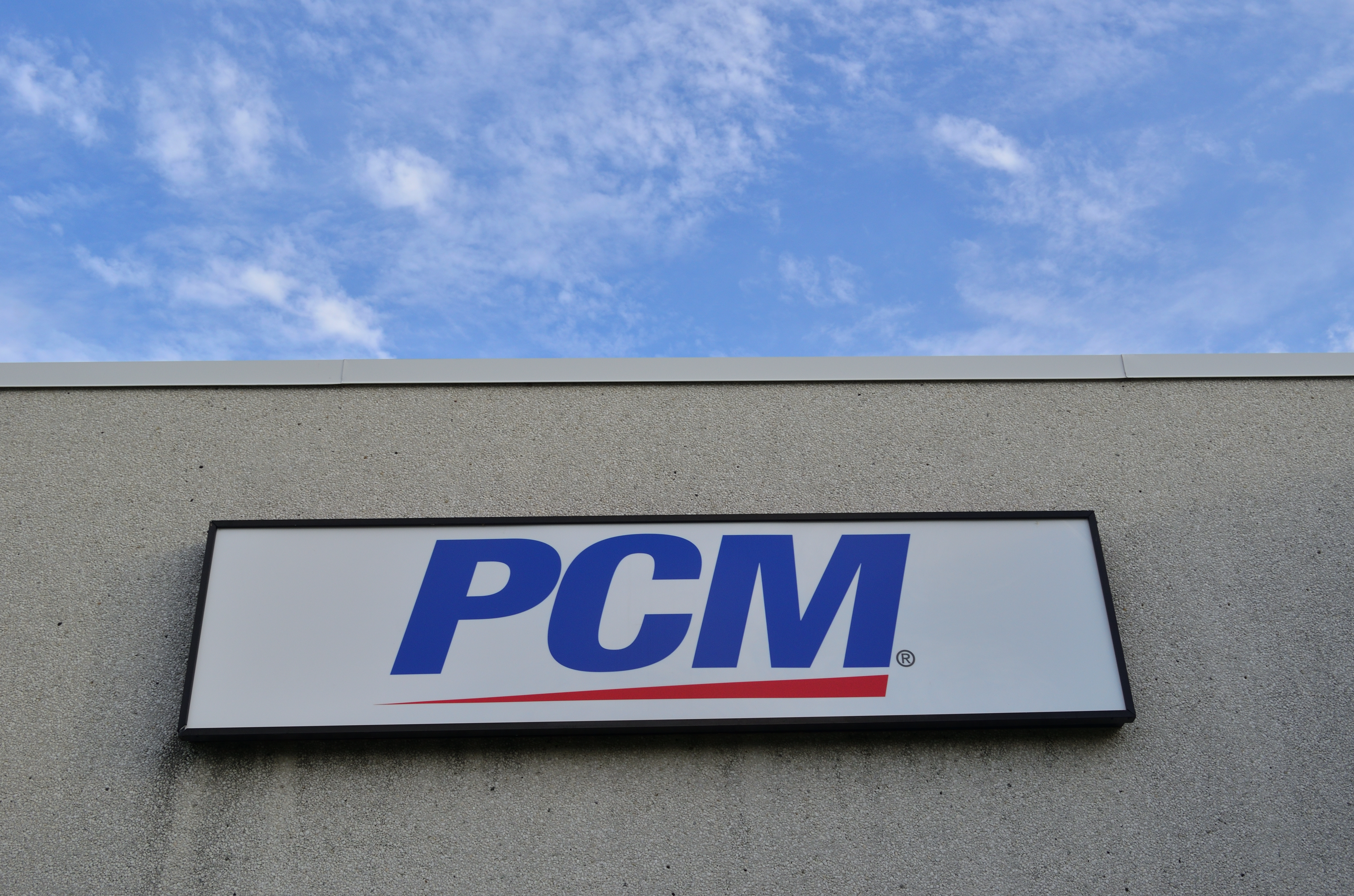 PCM Canada - Address: 55 East Beaver Creek Rd unit g, Richmond Hill, ON L4B 1E5